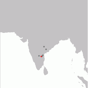 Range of Jerdon's Courser, historic records in grey